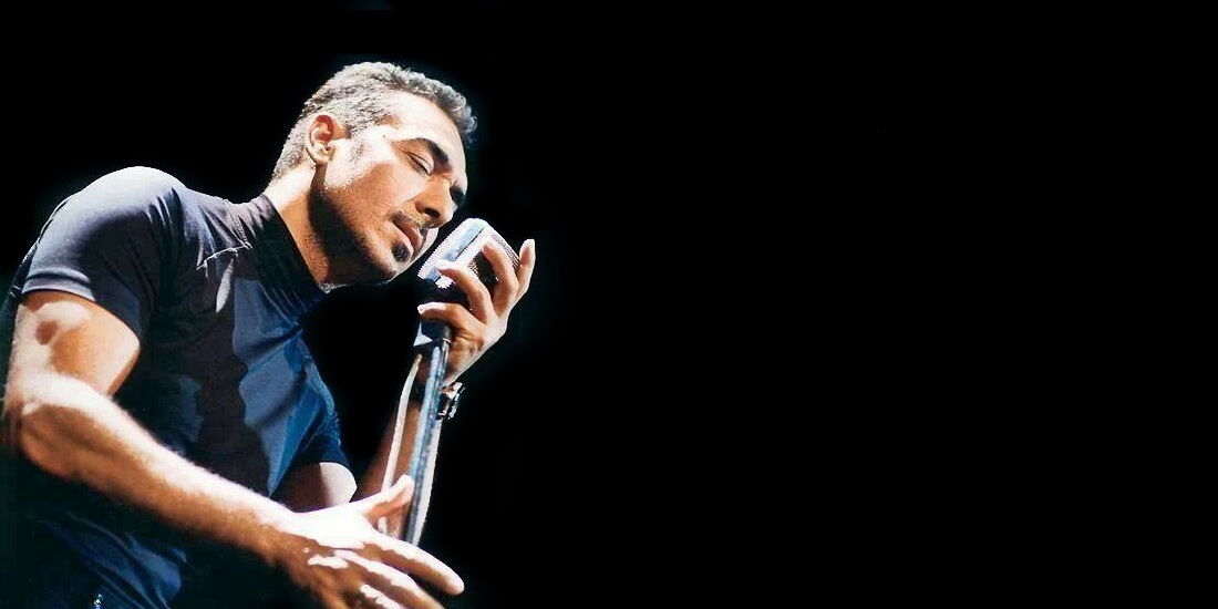 notis cd disc 2998.jpg